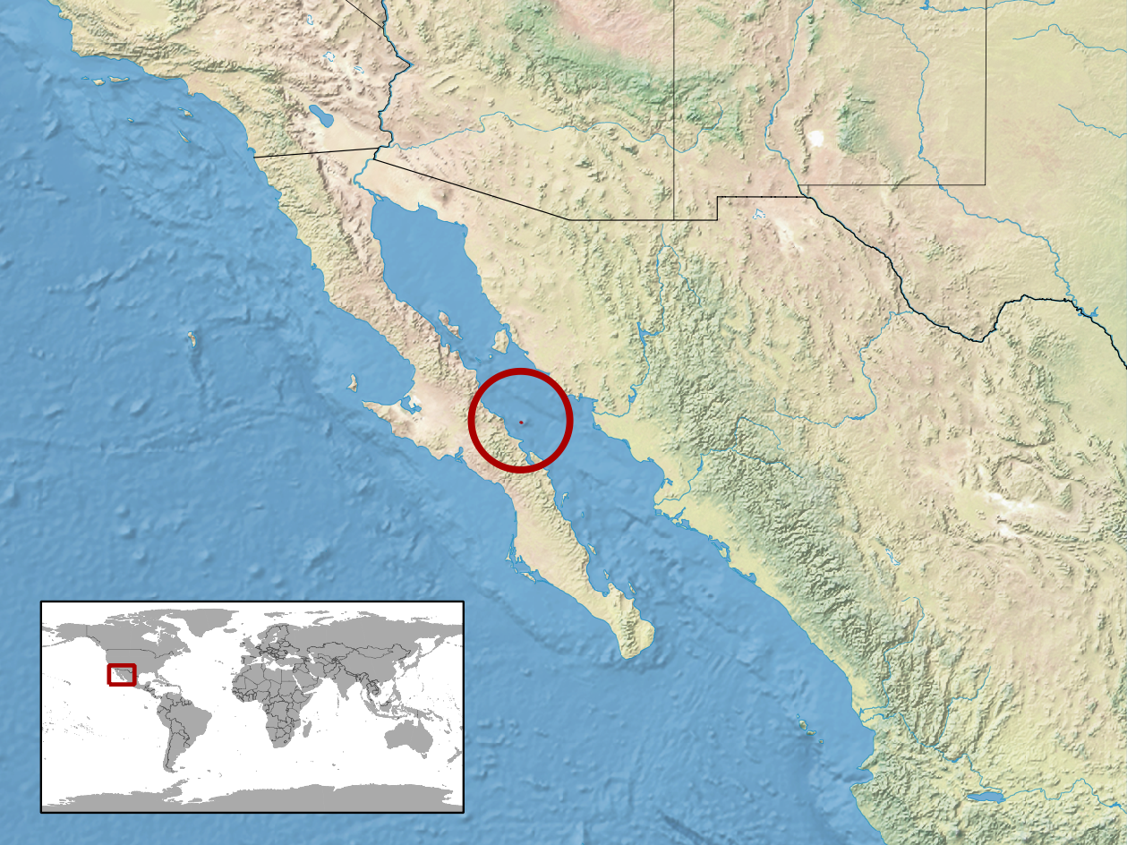 geographic distribution of Crotalus tortugensis syn Crotalus atrox tortugensis (Native: Mexico)